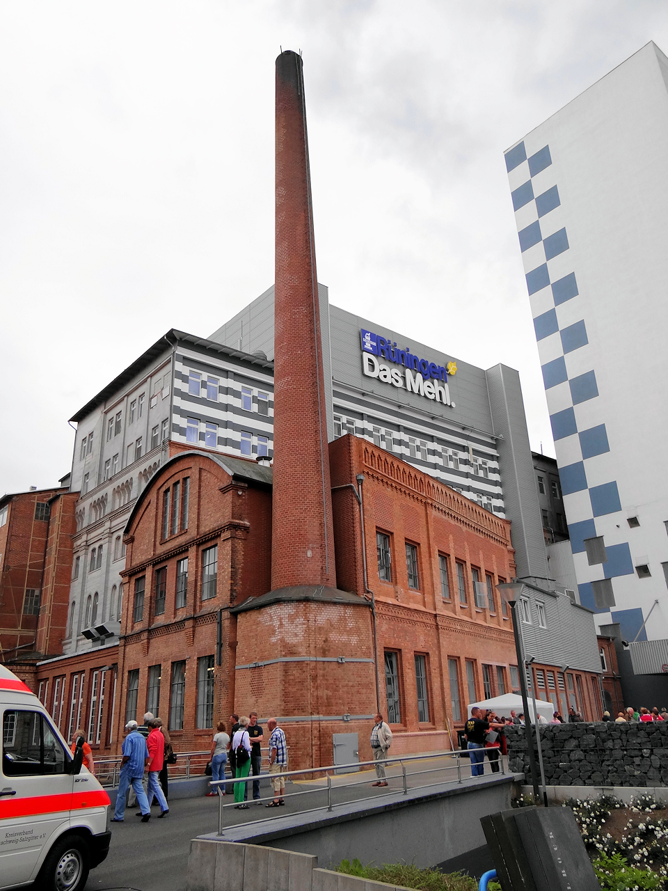 Mill of Rueningen, view from north in August 2012